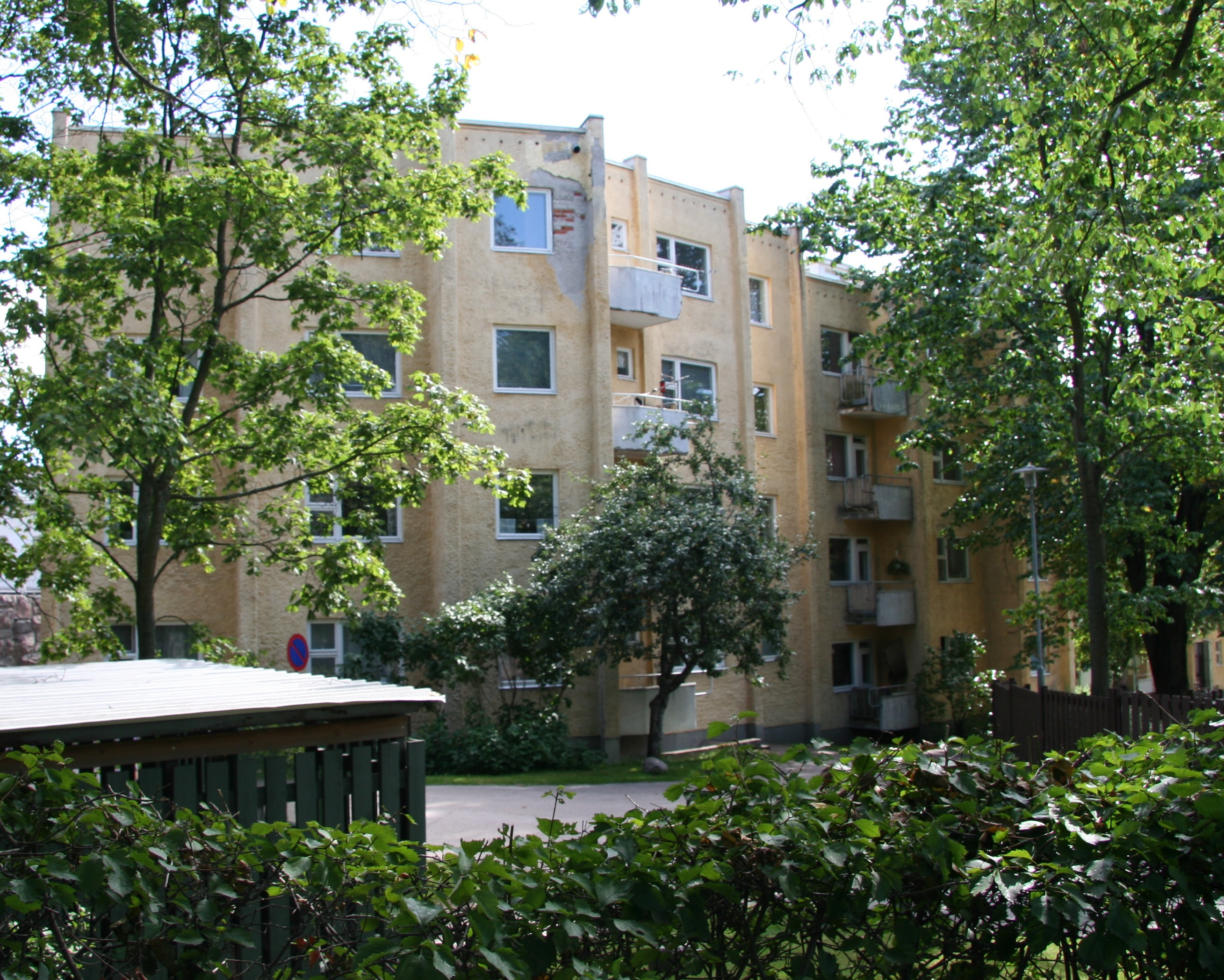 A residential house in Helsinki. Architect Yrjö Lindegren